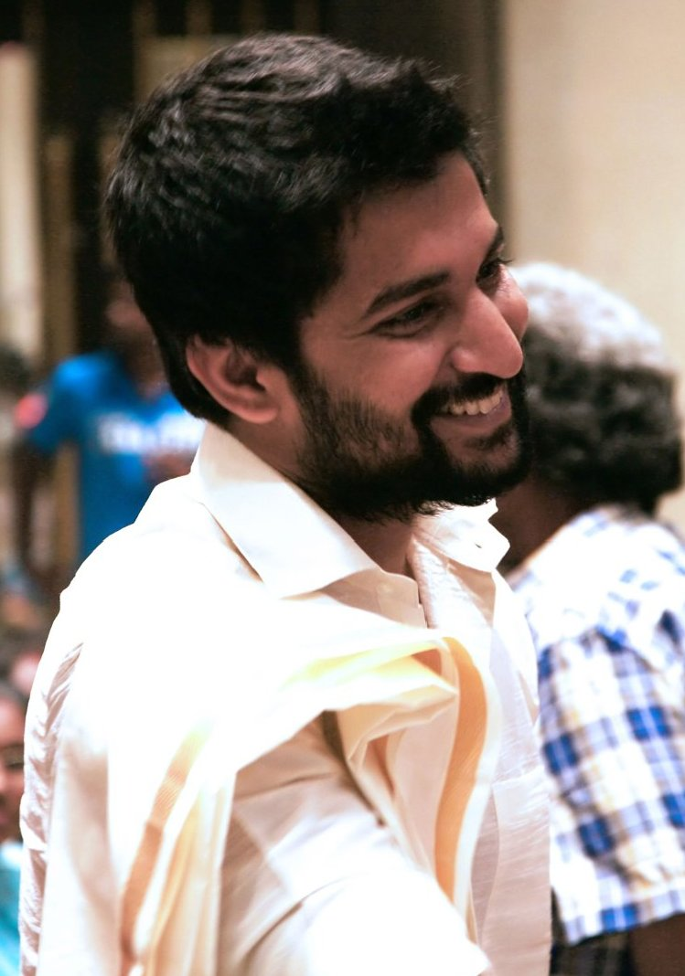 Nani at the audio launch of the film Aaha Kalyanam in January 2014